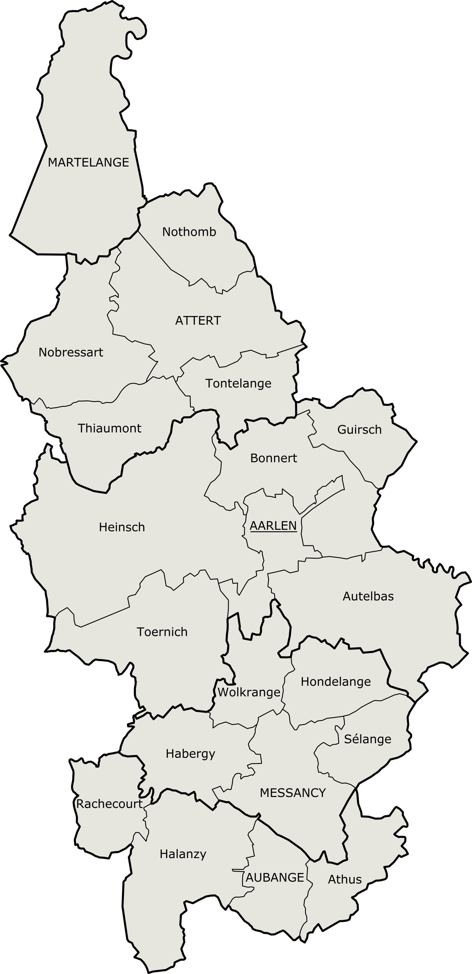 Arlon District. Dutch names.